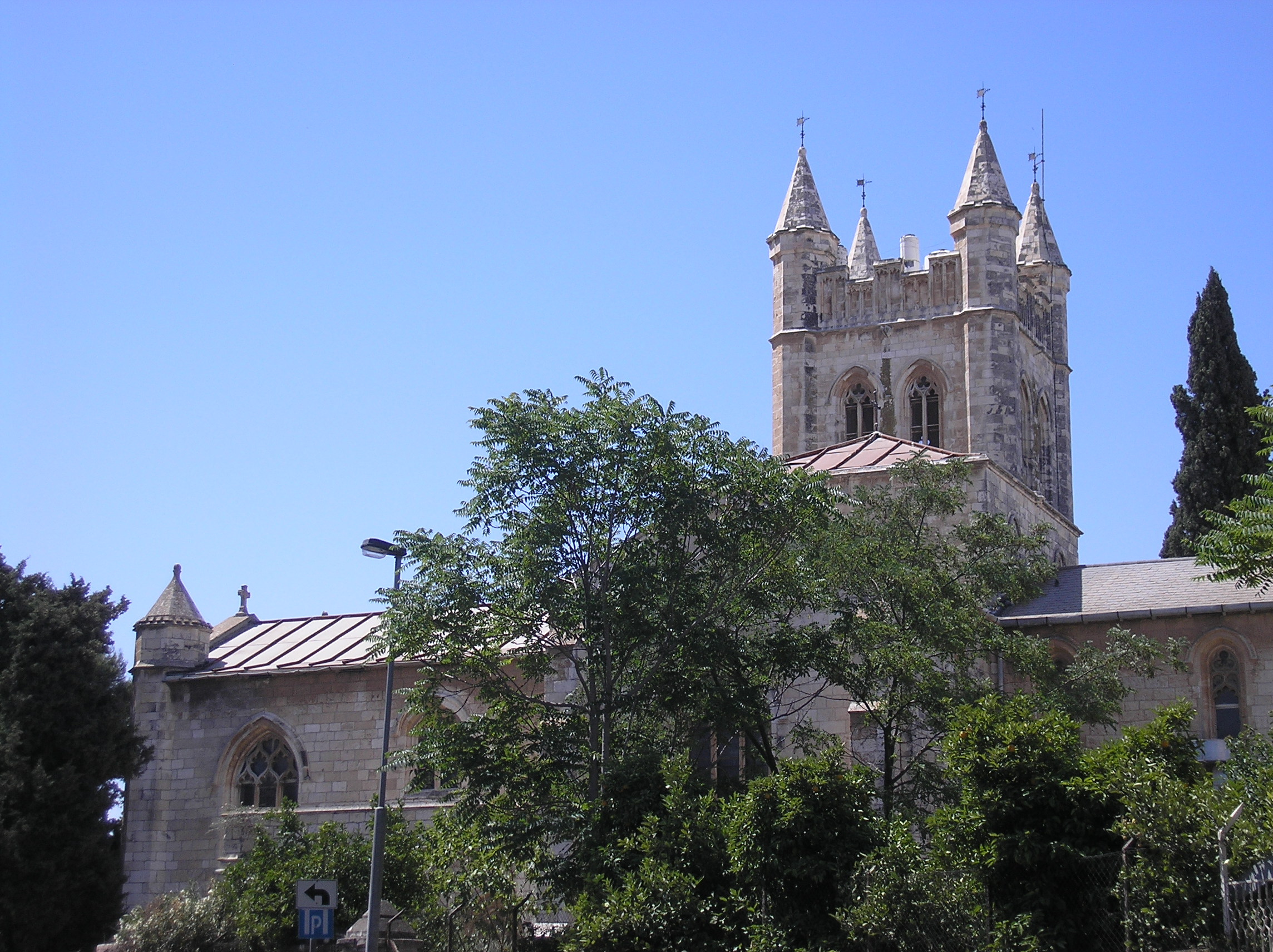 St. George's Cathedral